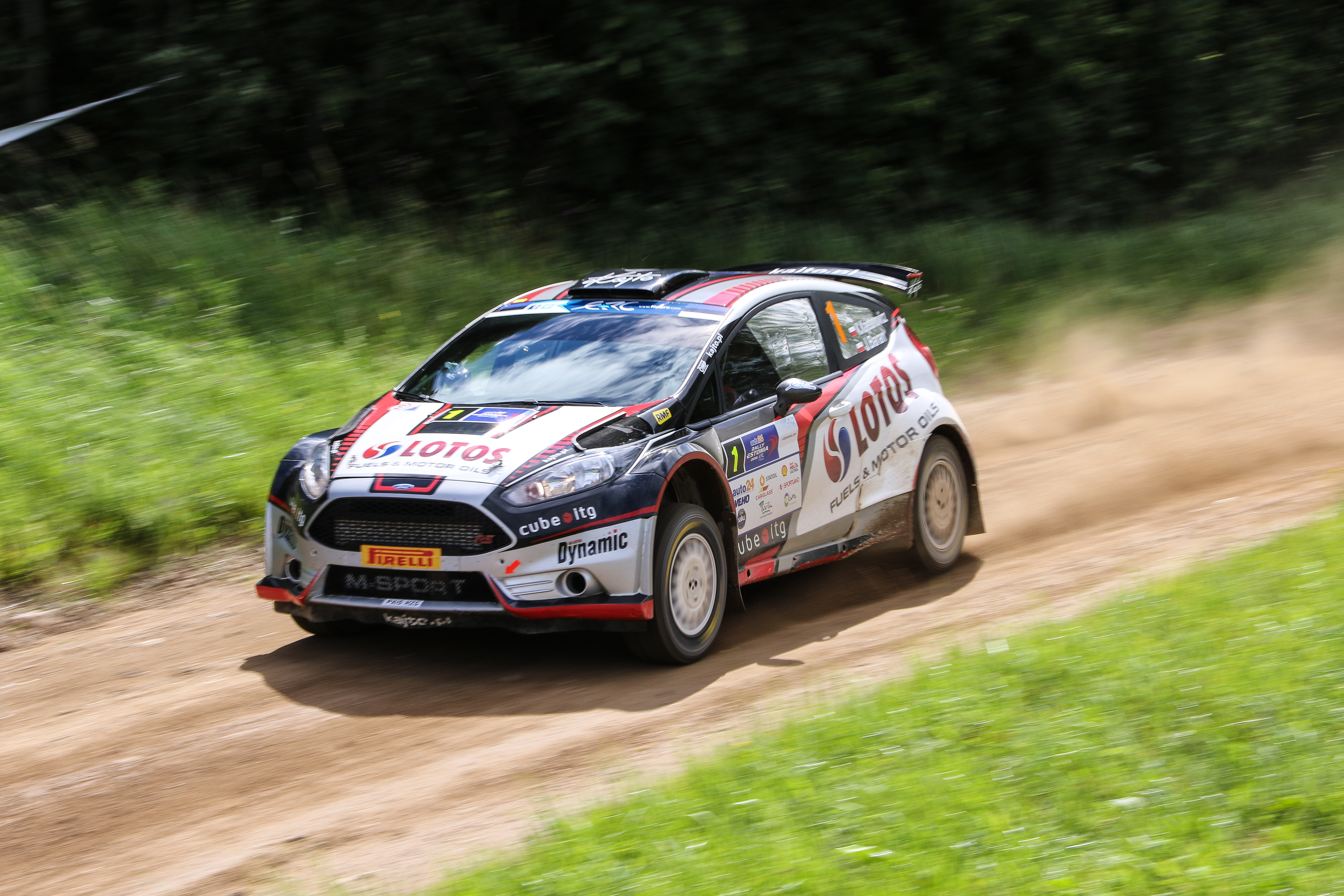 Kajetan Kajetanowicz @ Rally Estonia 2016, SS 3 Raiga 1